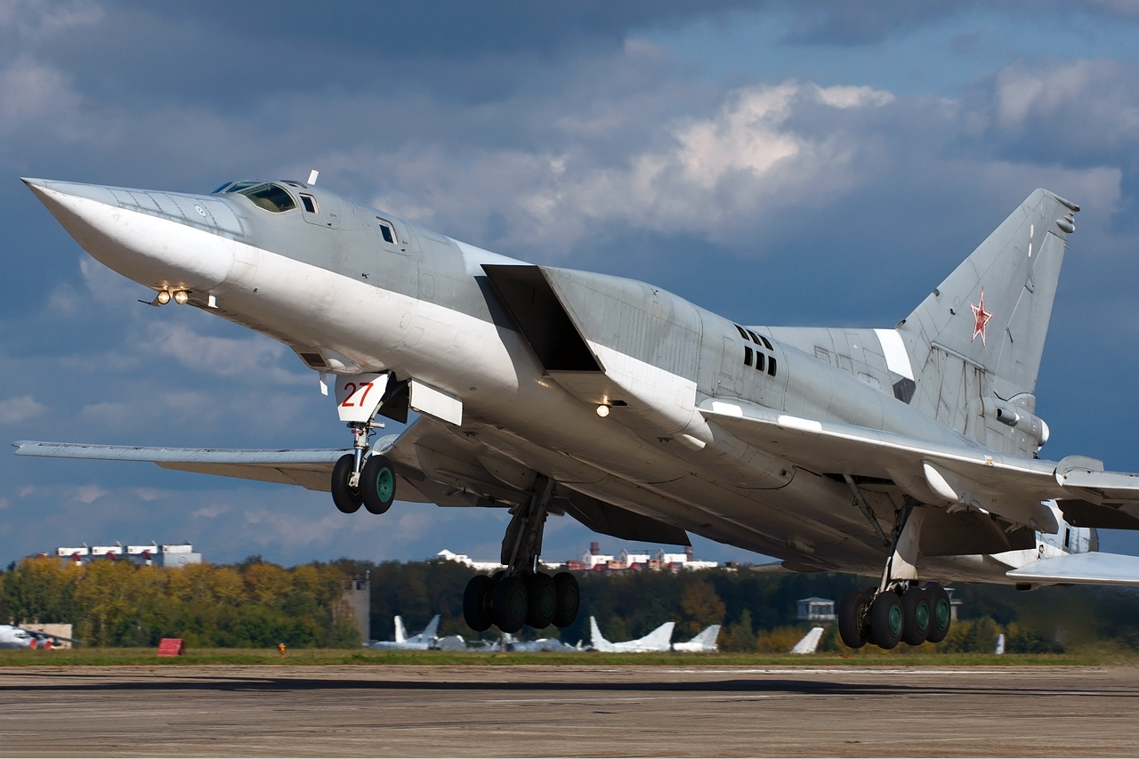 Russian Air Force Tupolev Tu-22M3 at Ryazan Dyagilevo